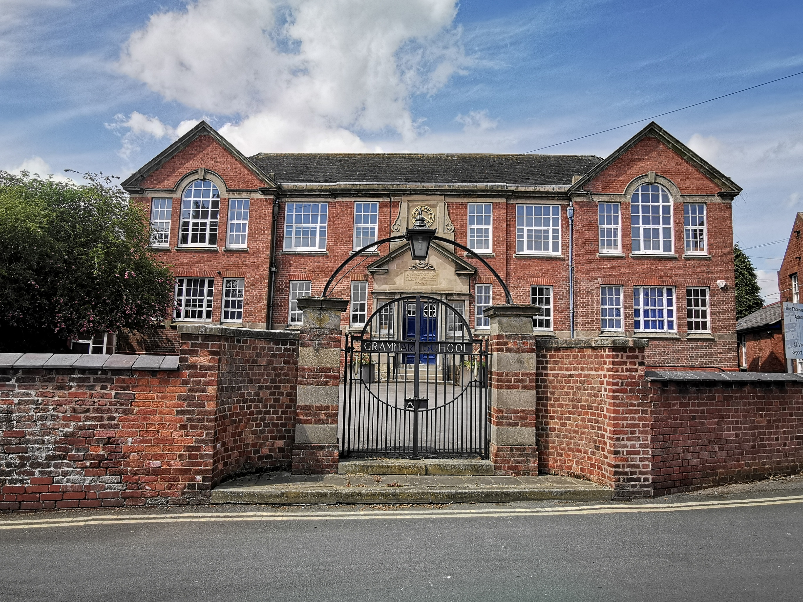 Adams GS Building Wem